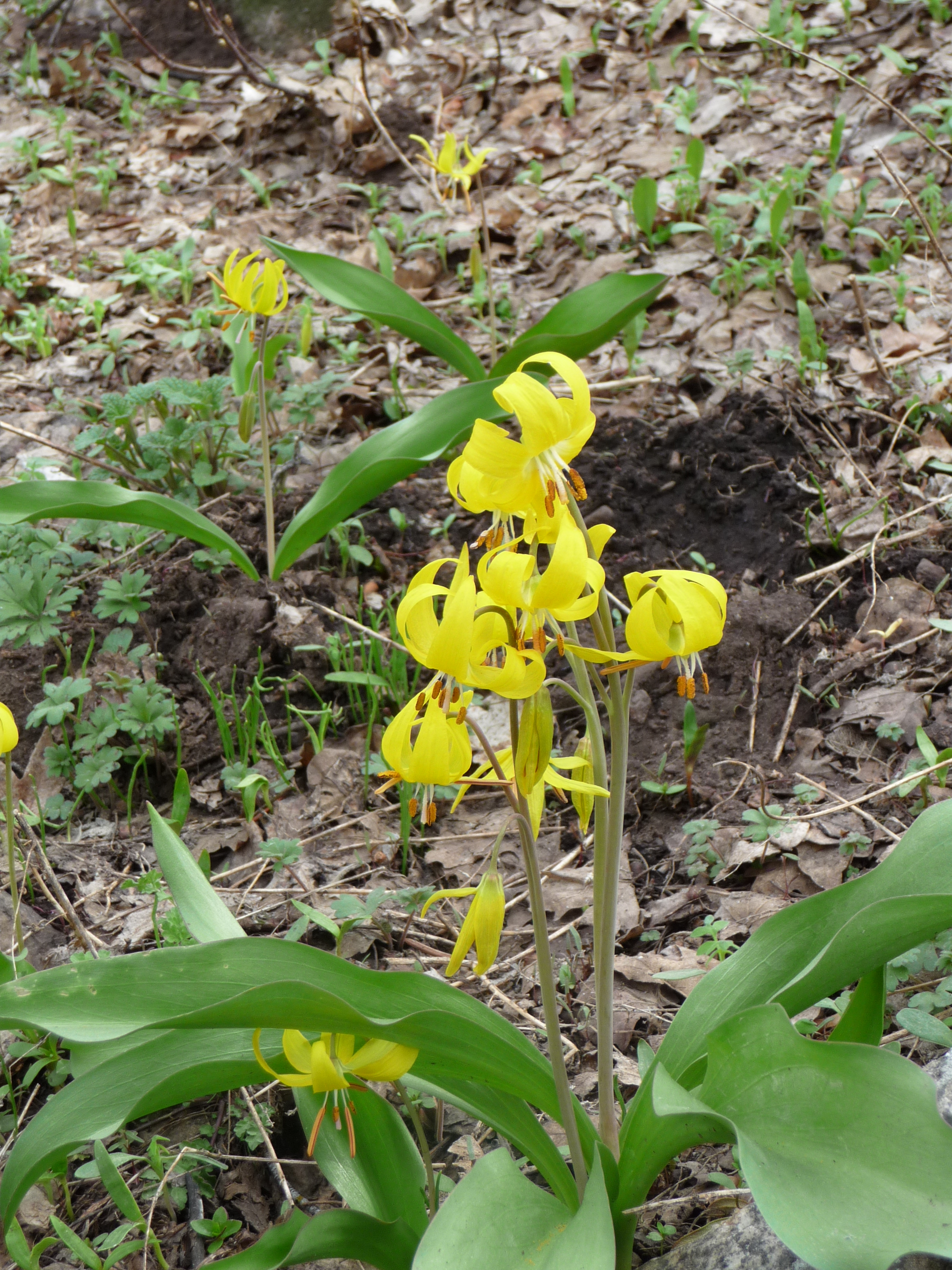 Glacier Lily (Erythronium grandiflorum subsp. grandiflorum), Mount Olympus, Utah